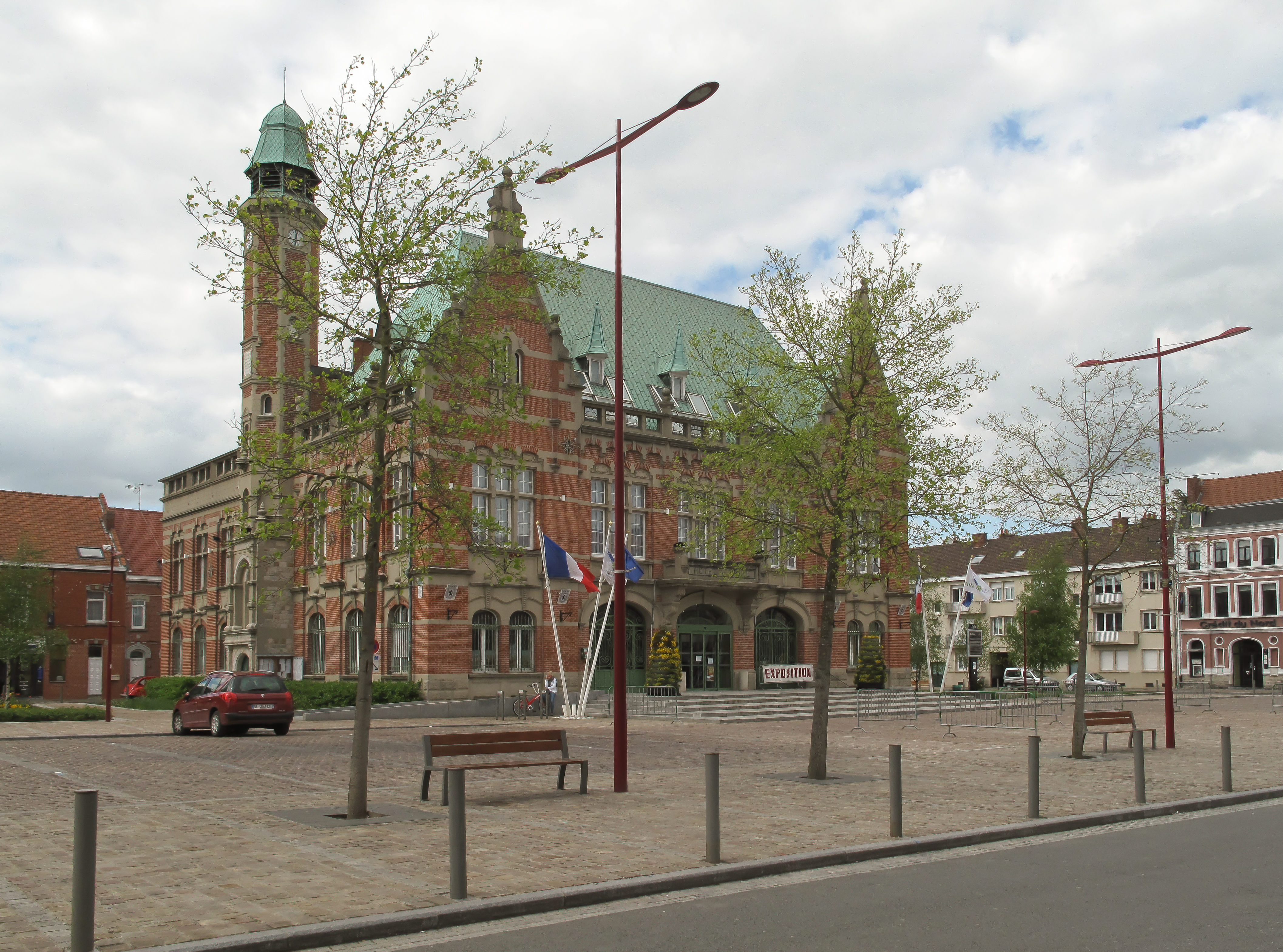 Orchies, townhall